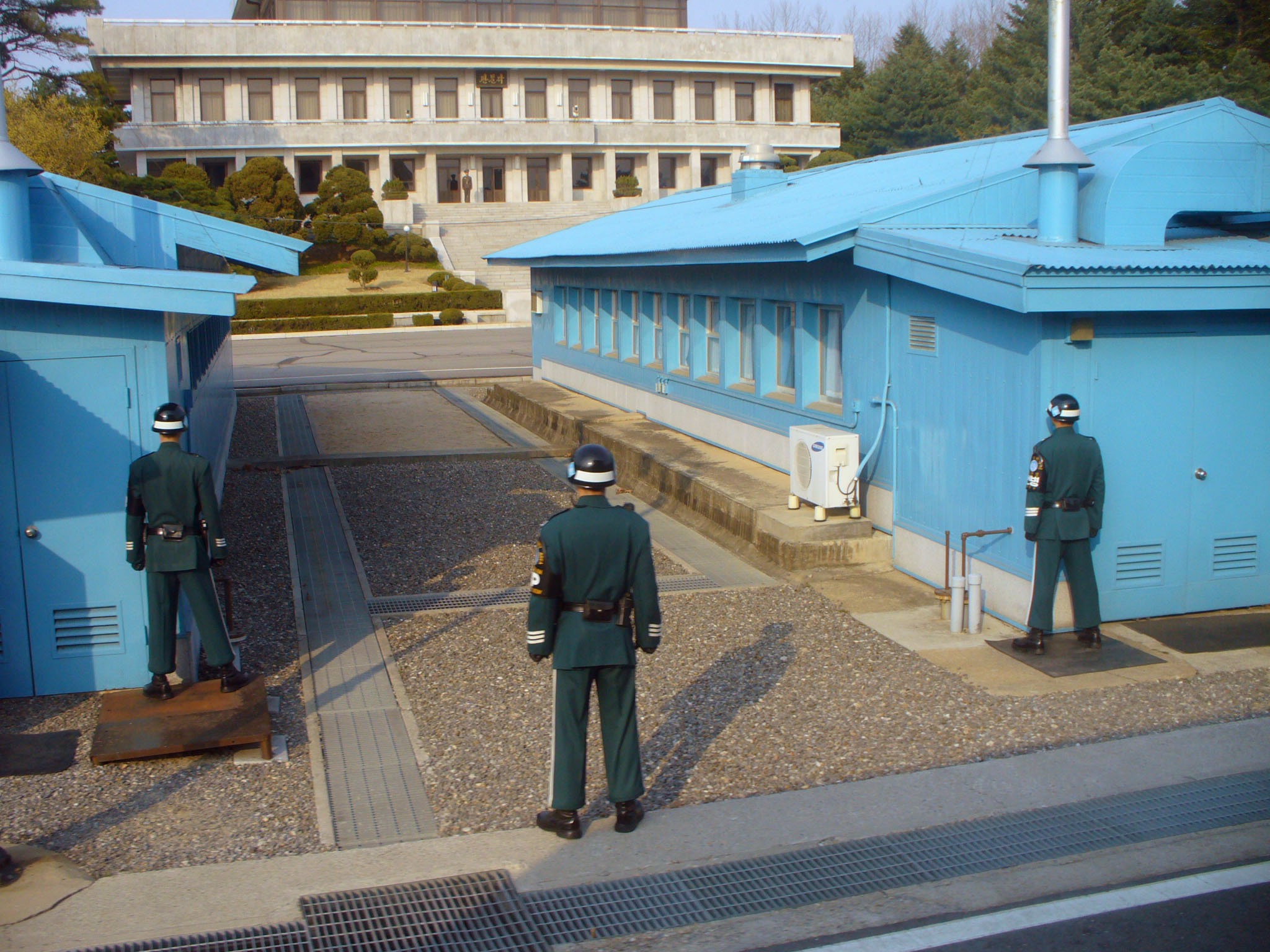 This is the Joint Security Area at the DMZ between North and South Korea. In the foreground are soldiers of the Republic of Korea. In the distance is one North Korean soldier.